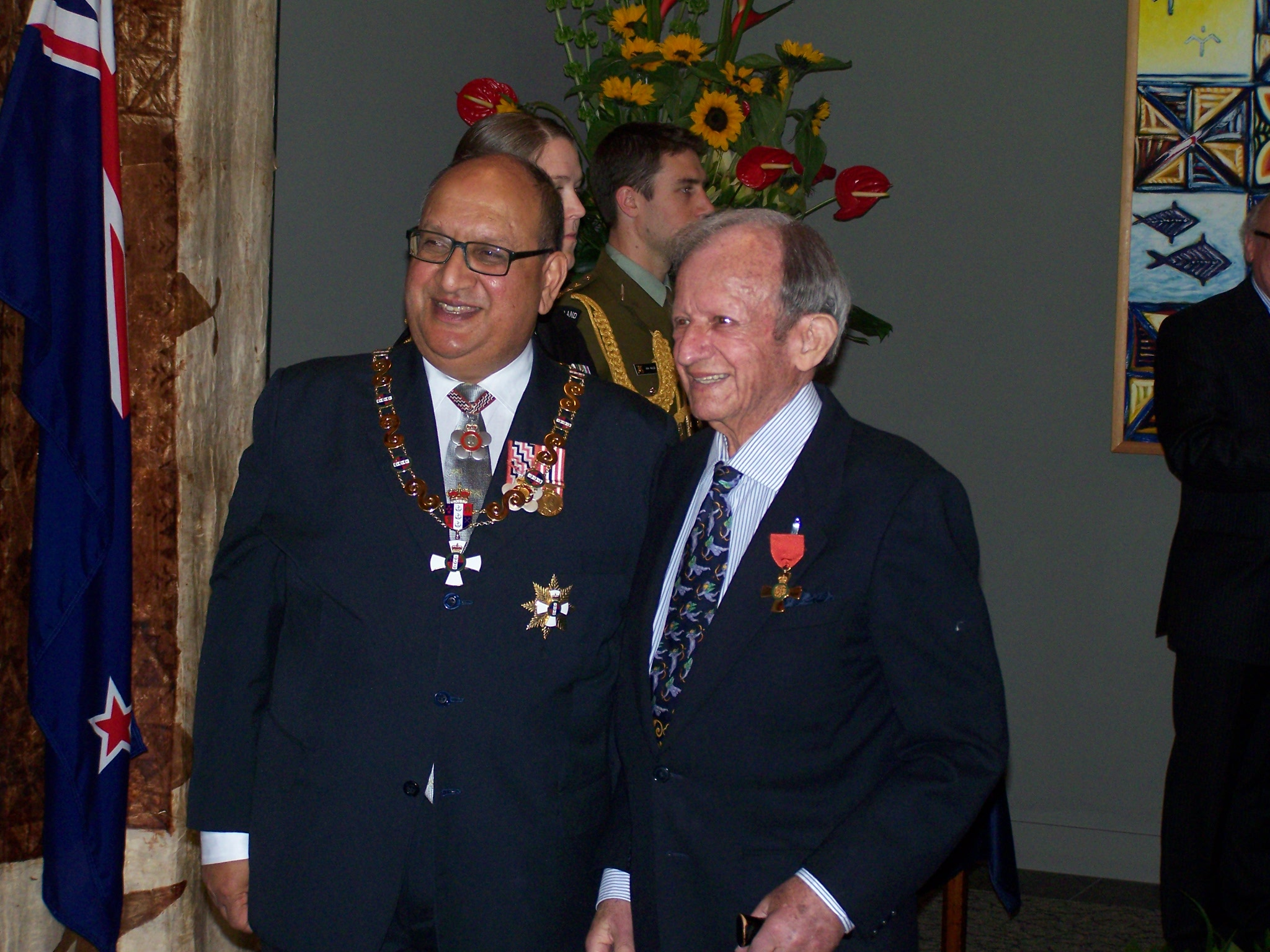 Gus Fisher (right), after his investiture as ONZM, for services to philanthropy, by the governor-general, Sir Anand Satyanand, on 17 Deptember 2009